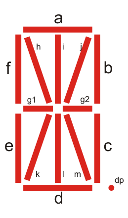 Drawing of a fourteen-segment display - see also seven segment display